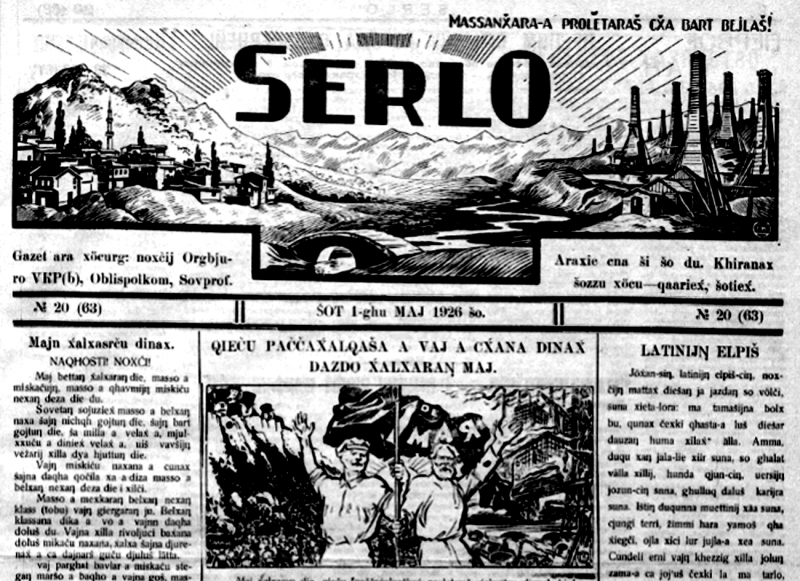 Picture of the Soviet-Chechen newspaper of Serlo written in Latin Chechen script